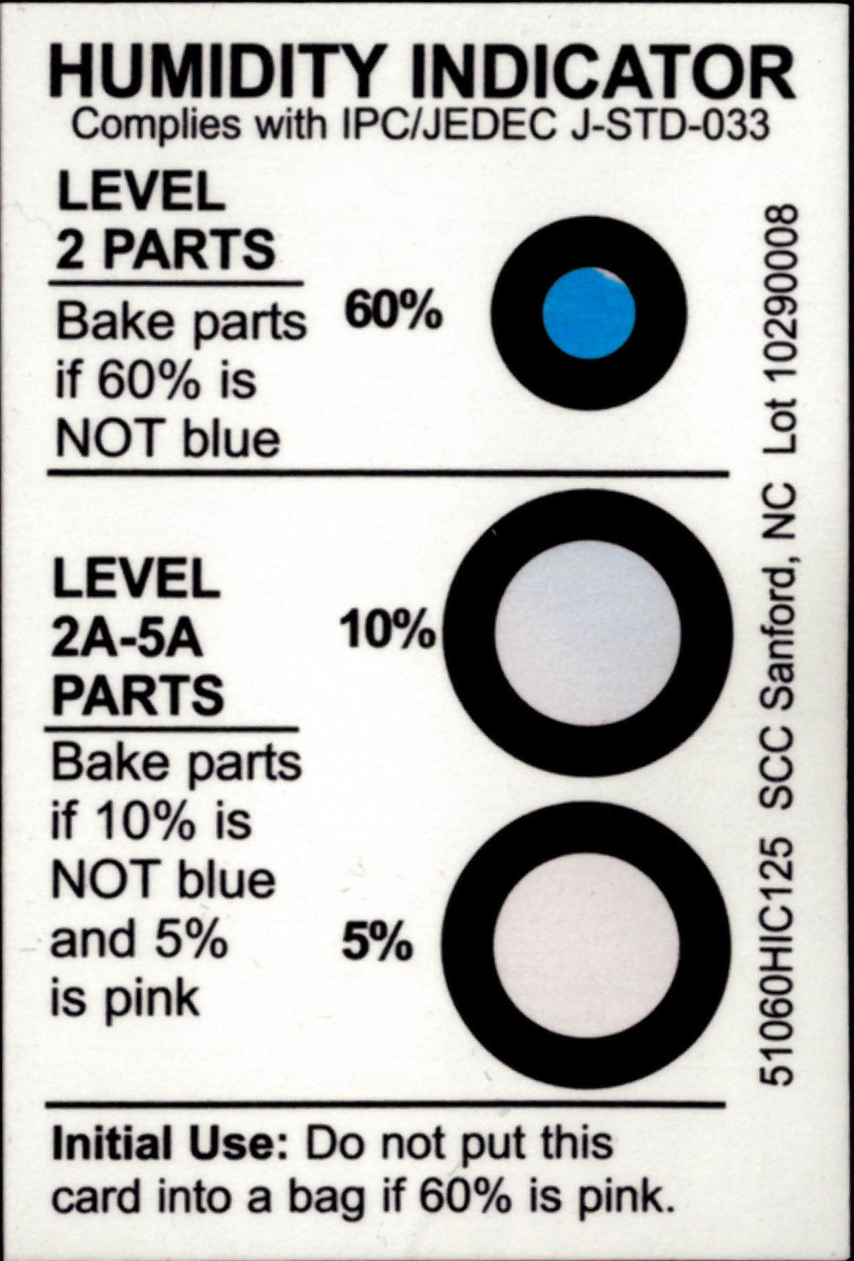 humidity indicator, original size: 60 by 85 mm